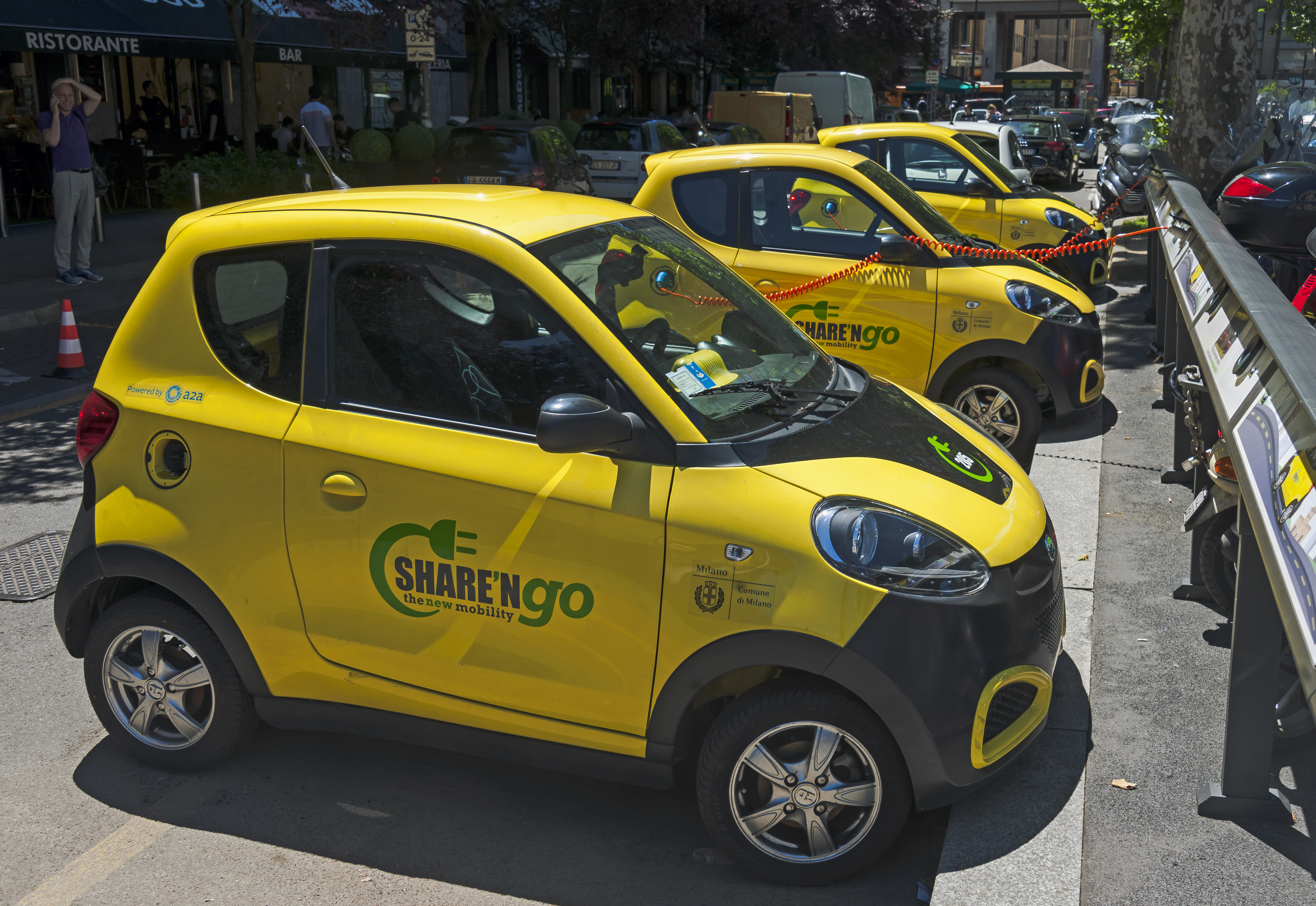 Shared electric cars parked next to the Piazza Duca d'Aosta in Milan